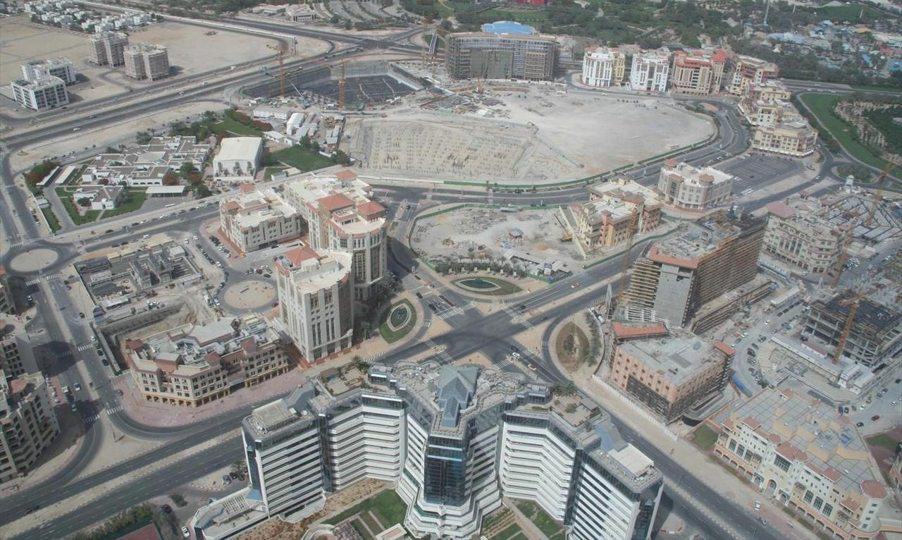 This is a photo showing Dubai Healthcare City in Dubai, United Arab Emirates as seen from the air on 1 May 2007.